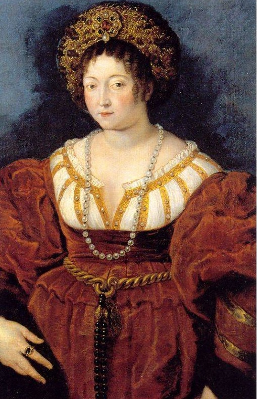 After Titian's lost Isabella in Red' of 1529.